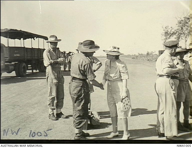 Darwin, NT. 1945-09-16. Mrs C. L. A. (Hilda) Abbott, wife of the Administrator of the NT, greets Lieutenant Colonel Wright, an 8th Division prisoner of war (POW), on his arrival at Darwin from Singapore.